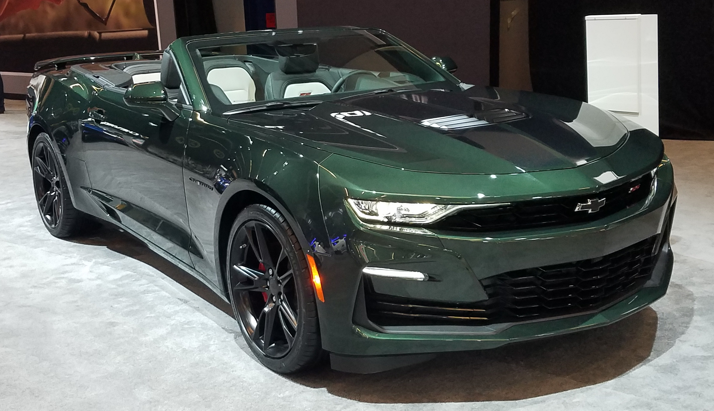 2020 Chevrolet Camaro photographed in Montréal , Québec , Canada at the 2020 Montréal International Auto Show.